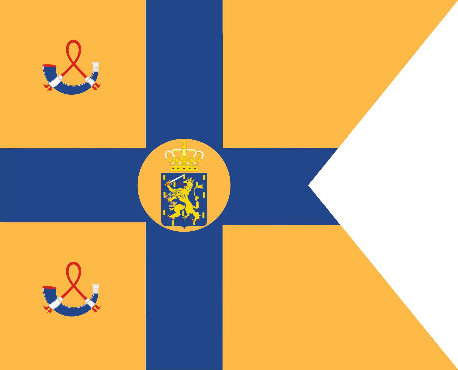 Standard of Marie von Wied, Princess of the Netherlands